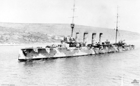 AWM caption : "Skyros Island, Greece. 1915. The British Navy light Cruiser HMS Weymouth in Skyros Harbour. This ship was one of the first warships in WW1 to have a camouflague pattern painted on."